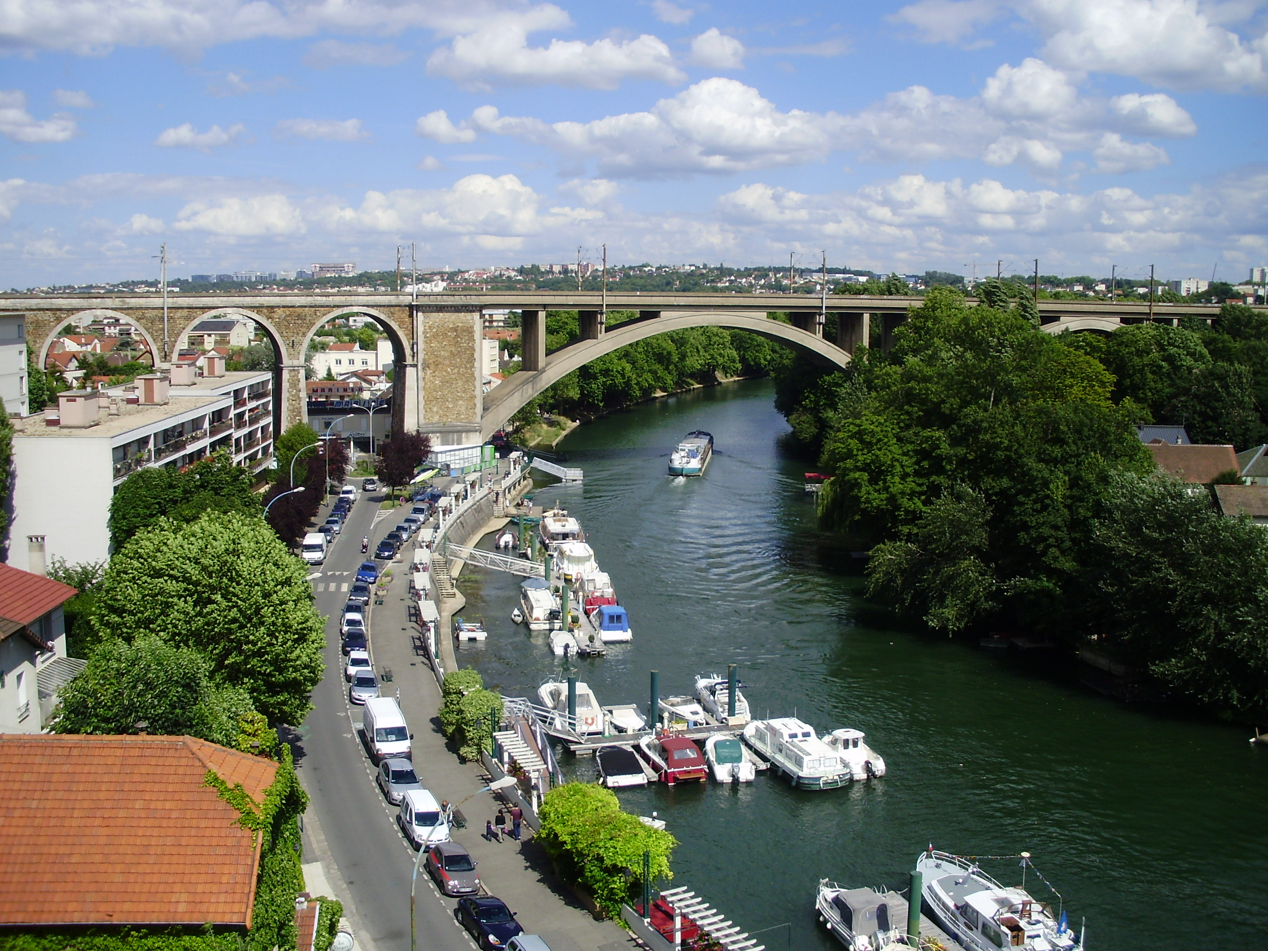 Railway bridge of Nogent-sur-Marne, Val-de-Marne, France, seen from the last store of a building situated on the quai du port (harbour embankment) in Nogent-sur-Marne